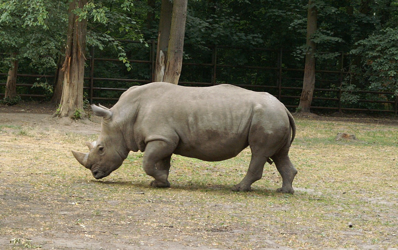 rhinoceros (Ceratotherium simum simum)